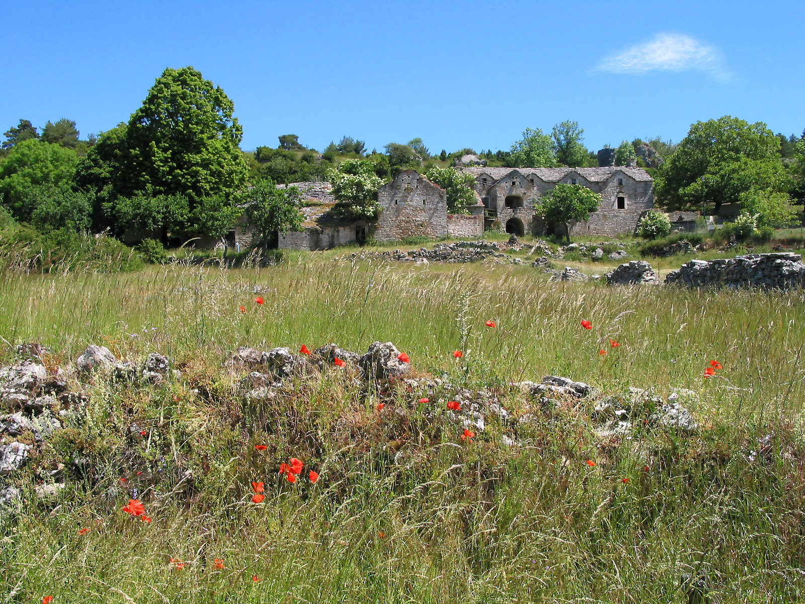 Saint-Rome-de-Dolan (Lozère - France), abandoned caussenarde farm of the Almières hamlet (XVIIIth century).